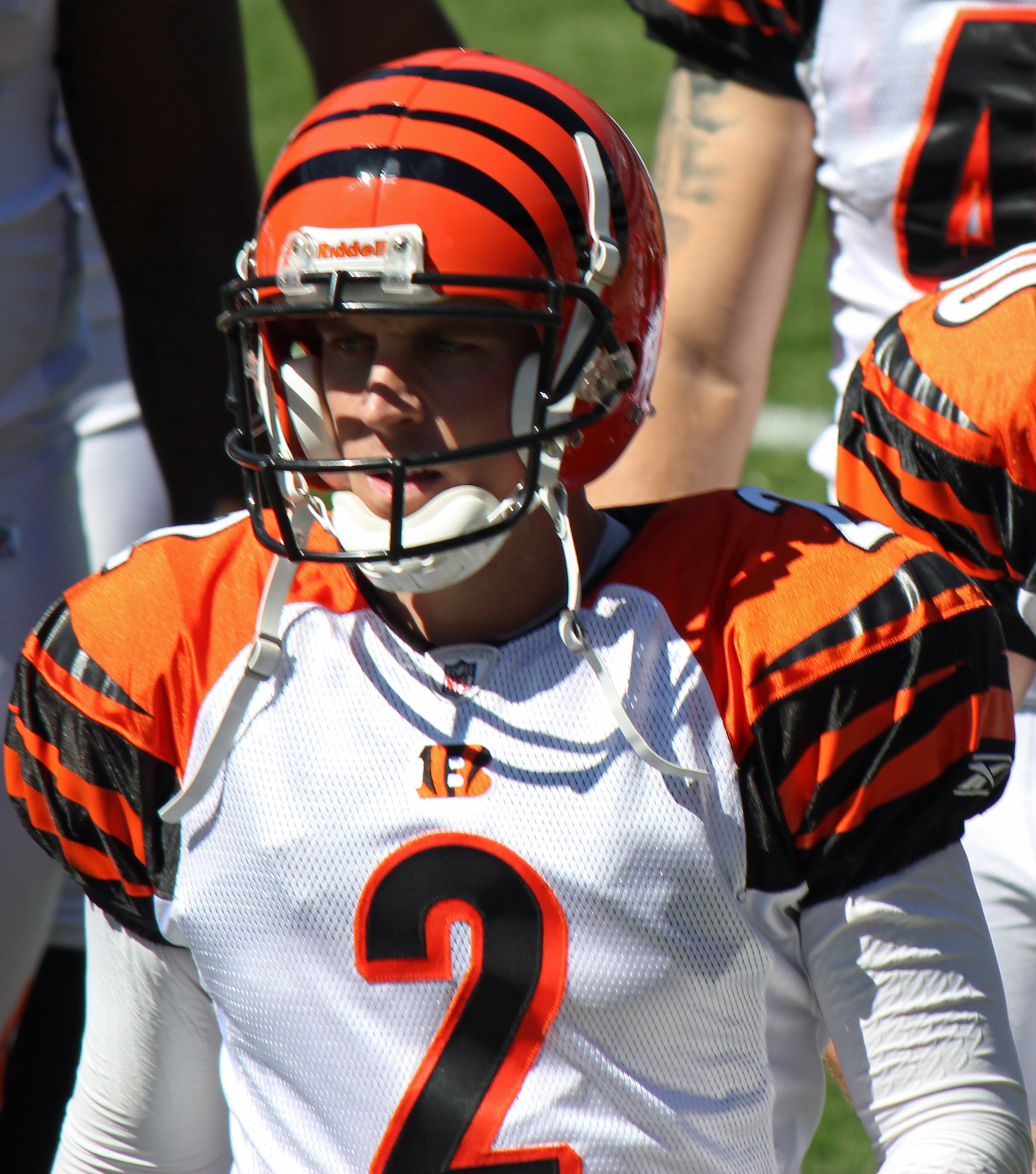 Mike Nugent, a National Football League player.